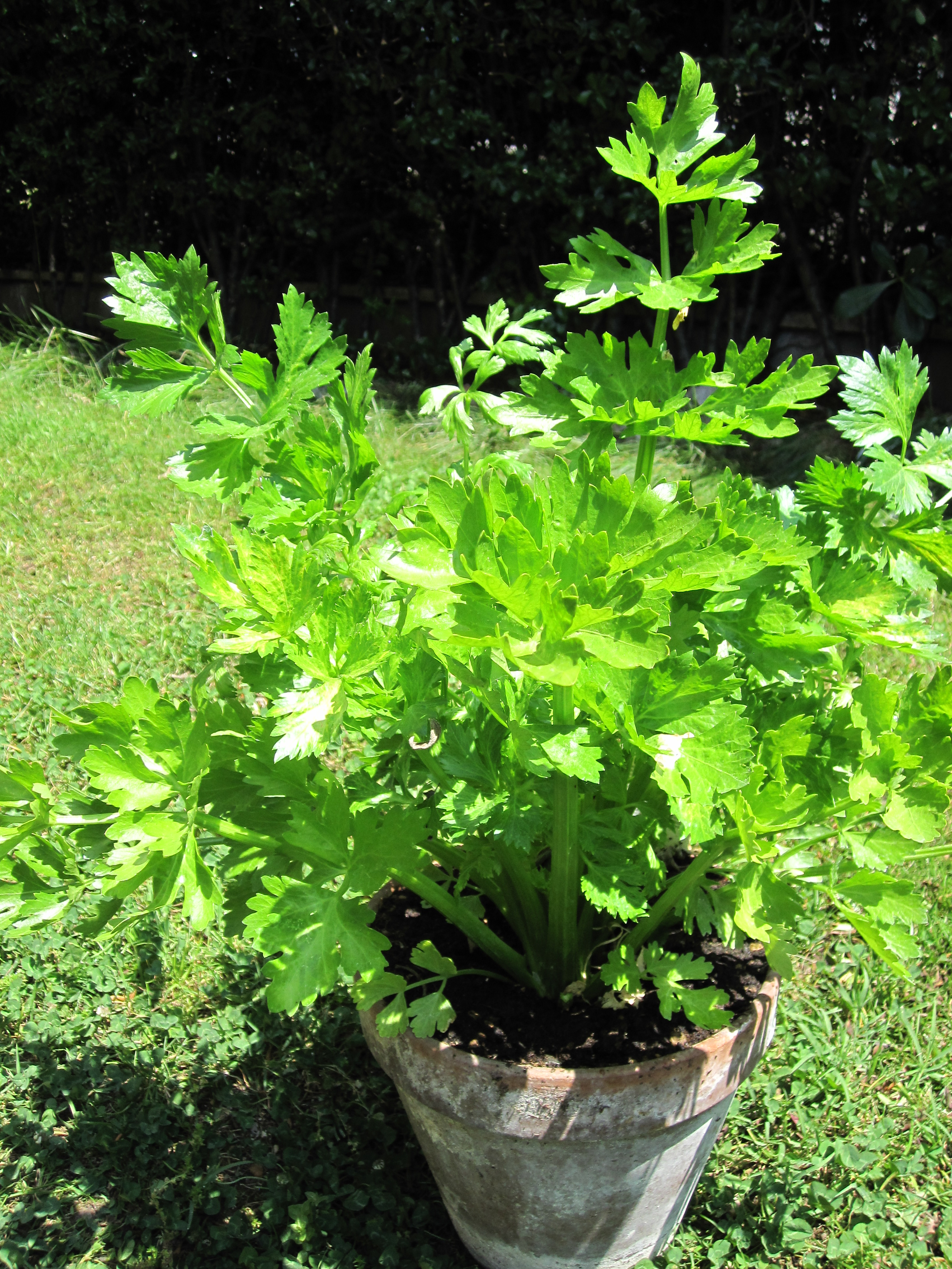 apium graveolens in pot